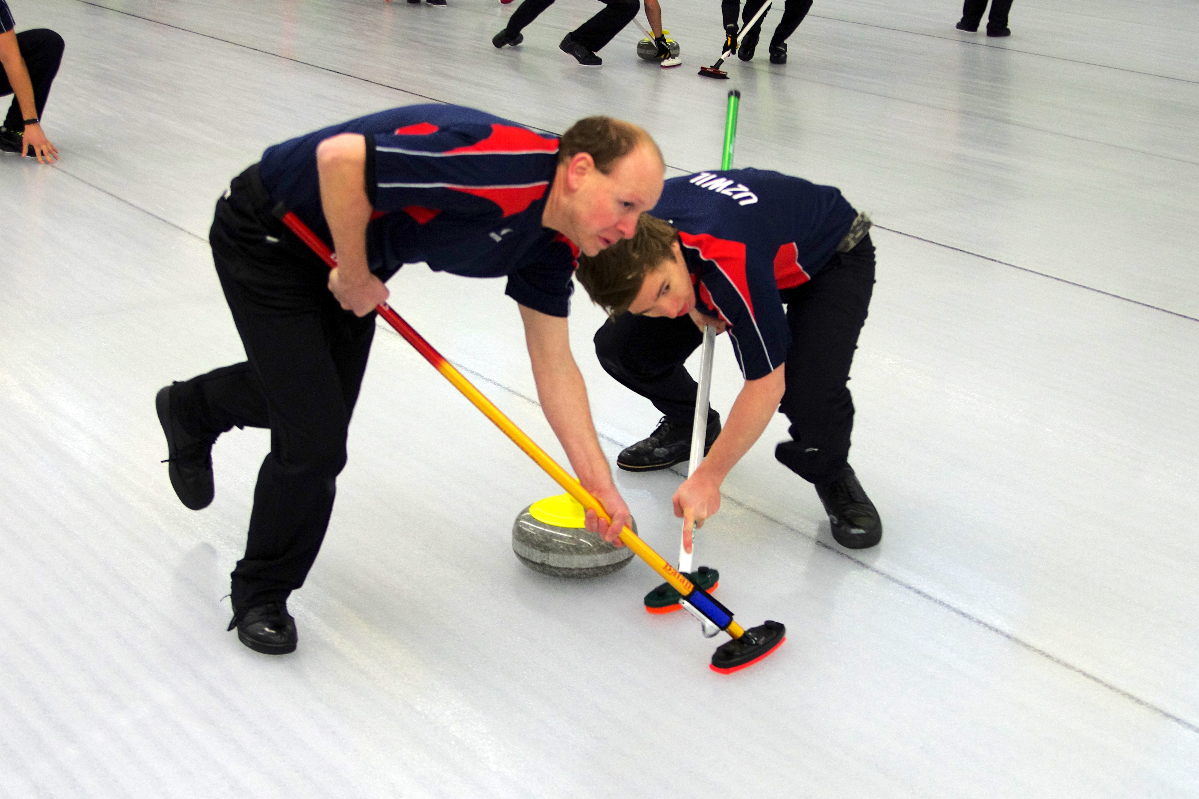 Swisscurling League 2012/2013 - Round 2 - Geneva